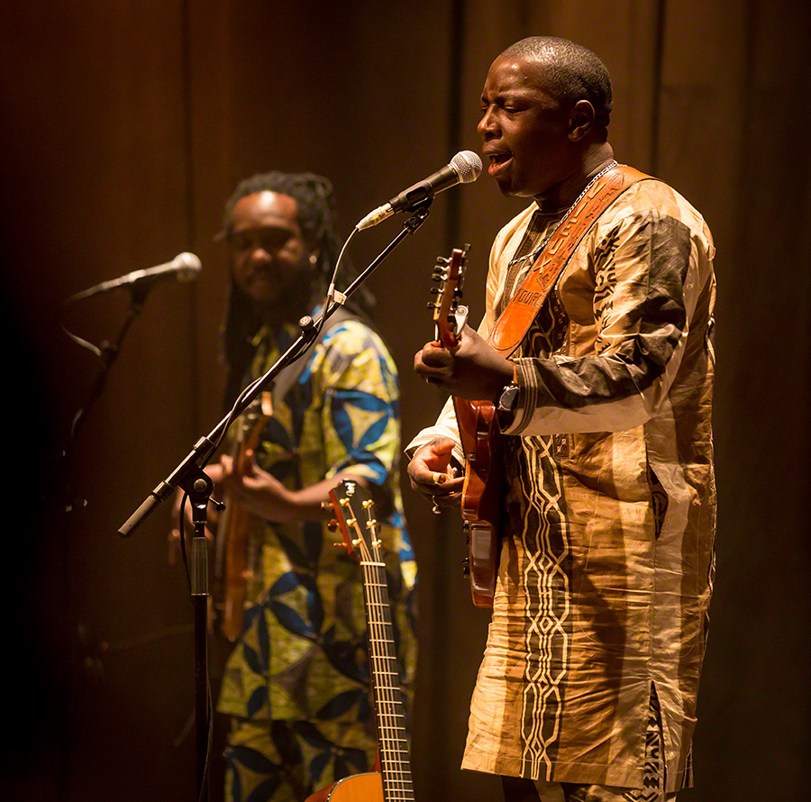 Vieux Farka Touré performs at Cosmopolite Scene in Oslo on 09.03.2016. “The Hendrix of the Sahara” visited Oslo for the Frankofoni festival.Lineup:Vieux Farka Touré (vocal and guitar)Jean-Paul Melindji (drums)Valery Assouan (bass)